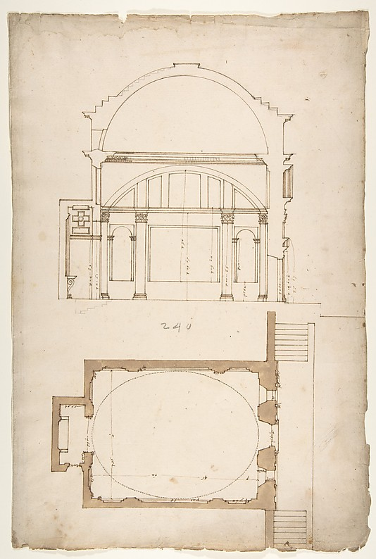 plan and section of Baroque church S. Andrea via Flaminia in Rome, Italy. Architect: Vignola